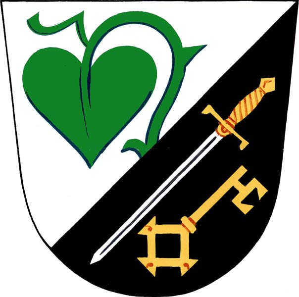 Municipal coat of arms of Rudíkov village, Třebíč District, Czech Republic.